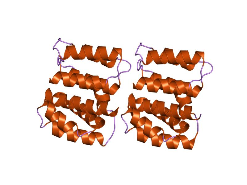 Cartoon representation of the molecular structure of protein registered with 1ea3 code.